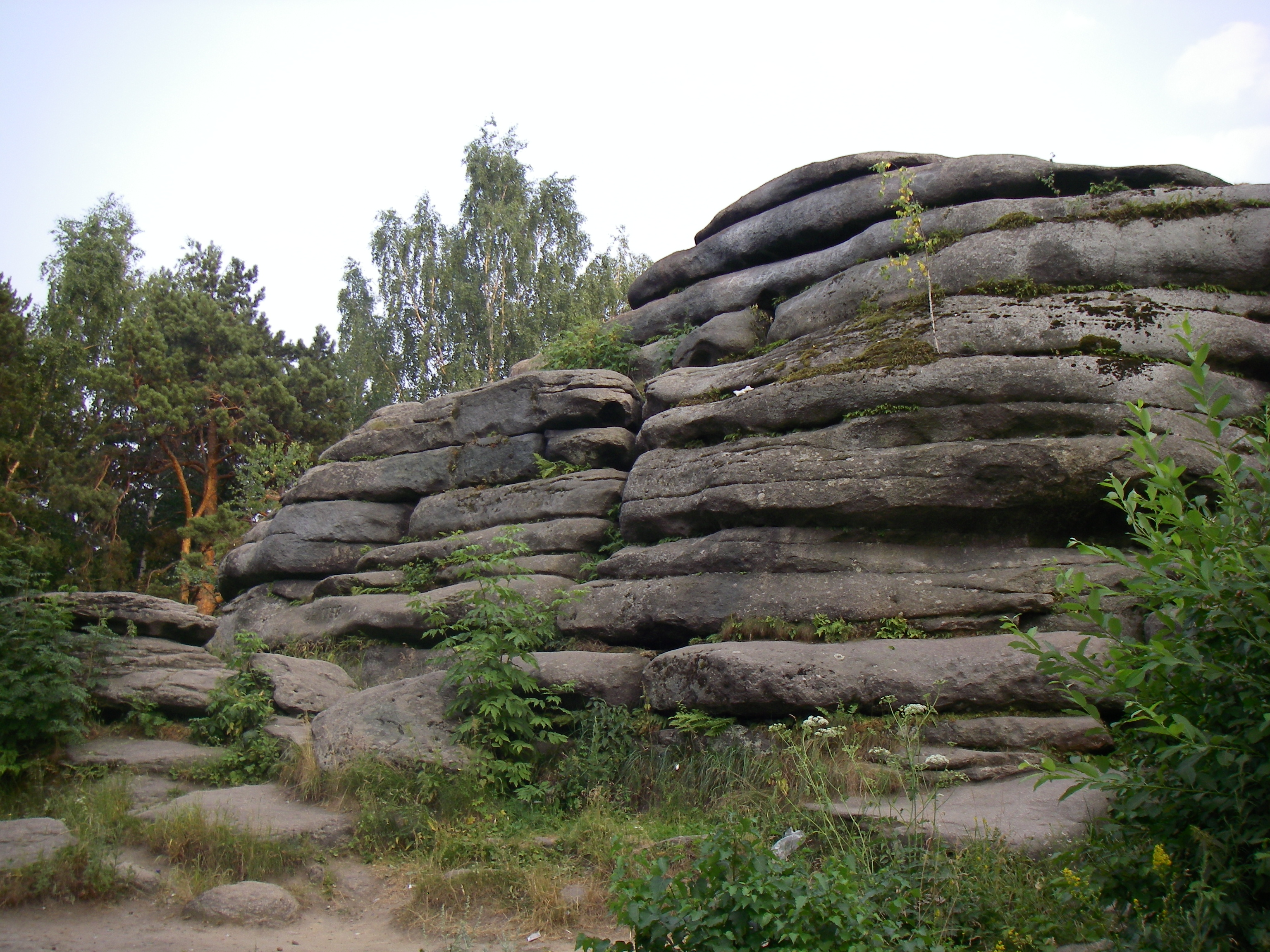 Rock formations Shartash kamenniye palatki